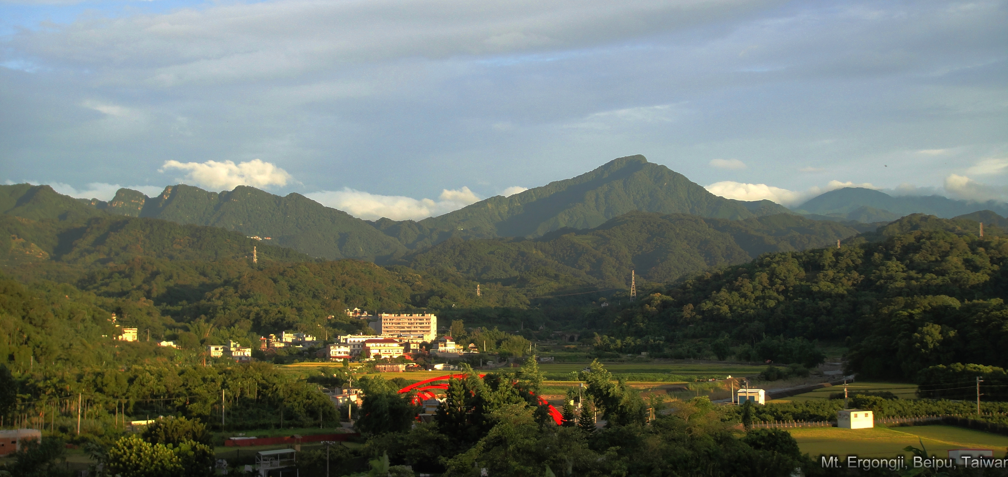 Mt. Ergongji (right-hand side), located at Hsinchu County, Taiwan中文（台灣）: 鵝公髻山, 位於台灣新竹縣